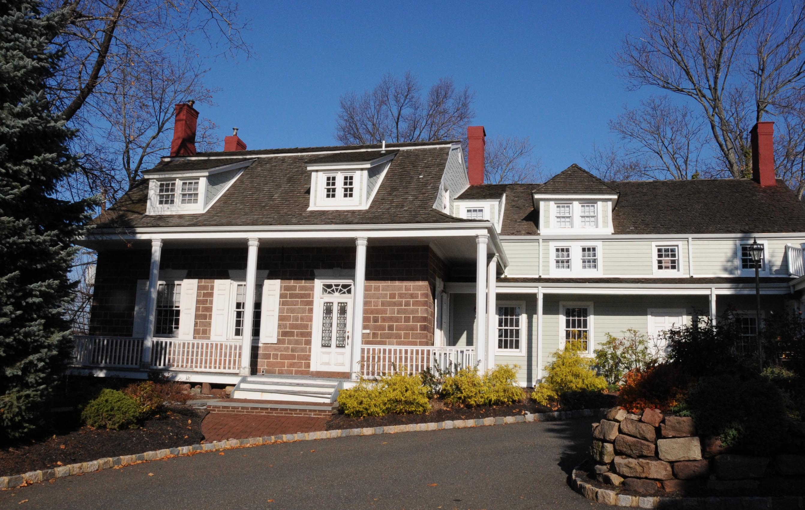 The Peter Westervelt House, aka the Demott-Westervelt House, 290 Grand Avenue, Englewood, New Jersey.